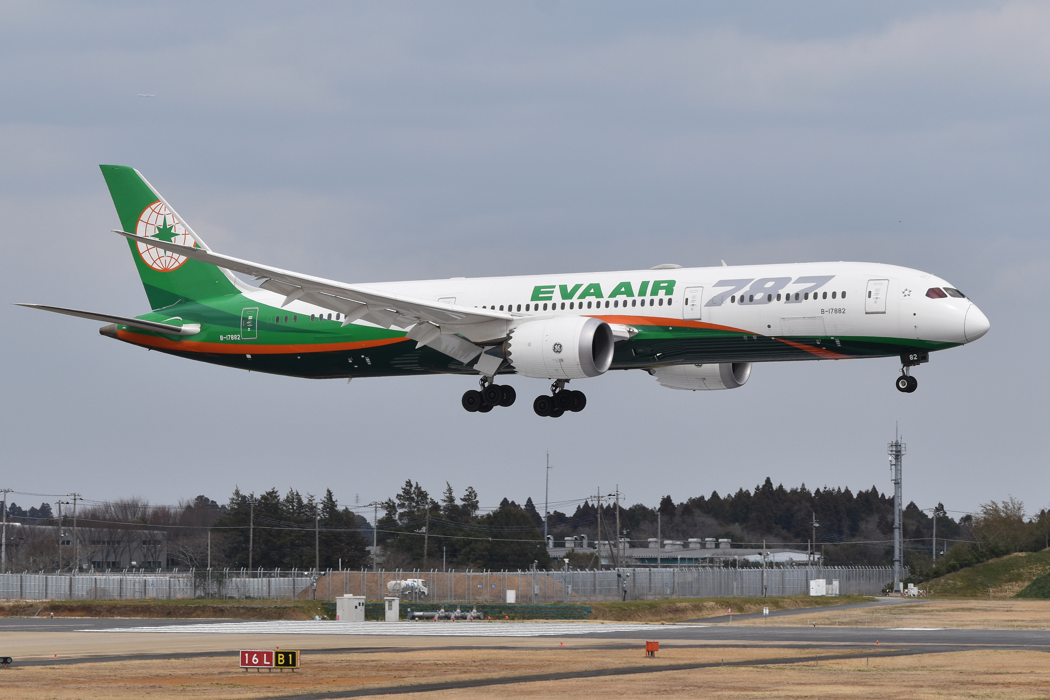 c/n 39298, l/n 757 Built 2018 Seen arriving on flight BR198 / EVA198 from Taipei Narita International Airport Tokyo, Japan 17th March 2019